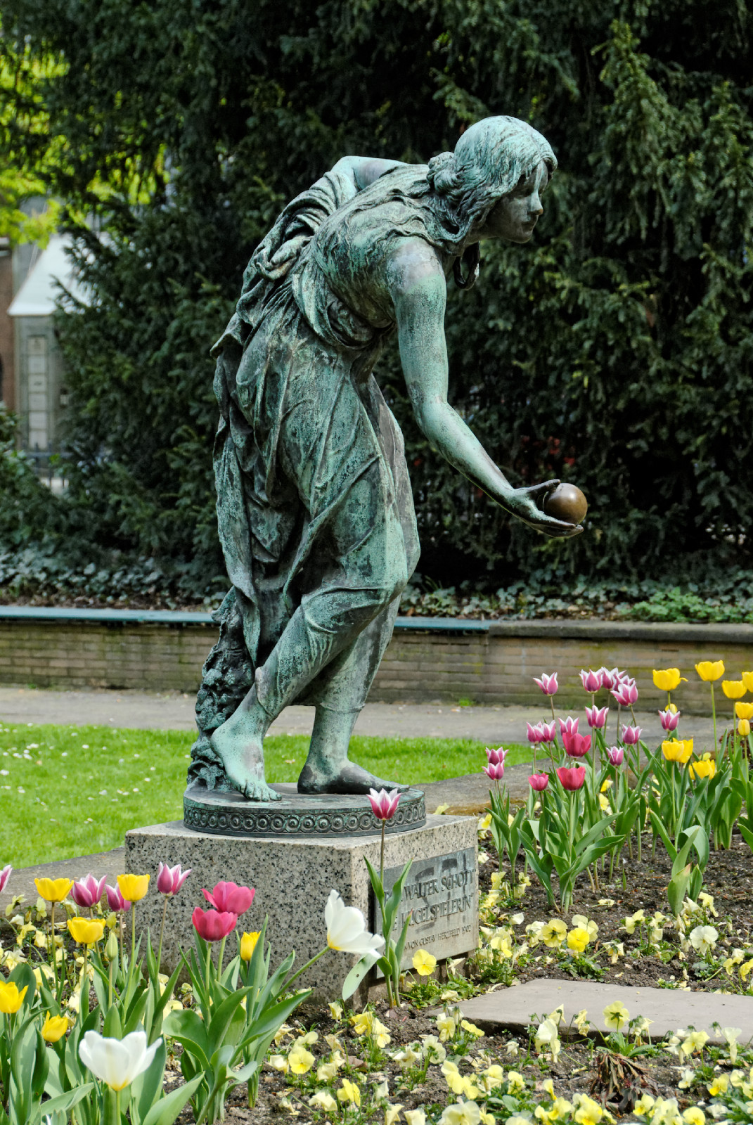 Ball player, Königsallee, in Düsseldorf-Stadtmitte, Germany